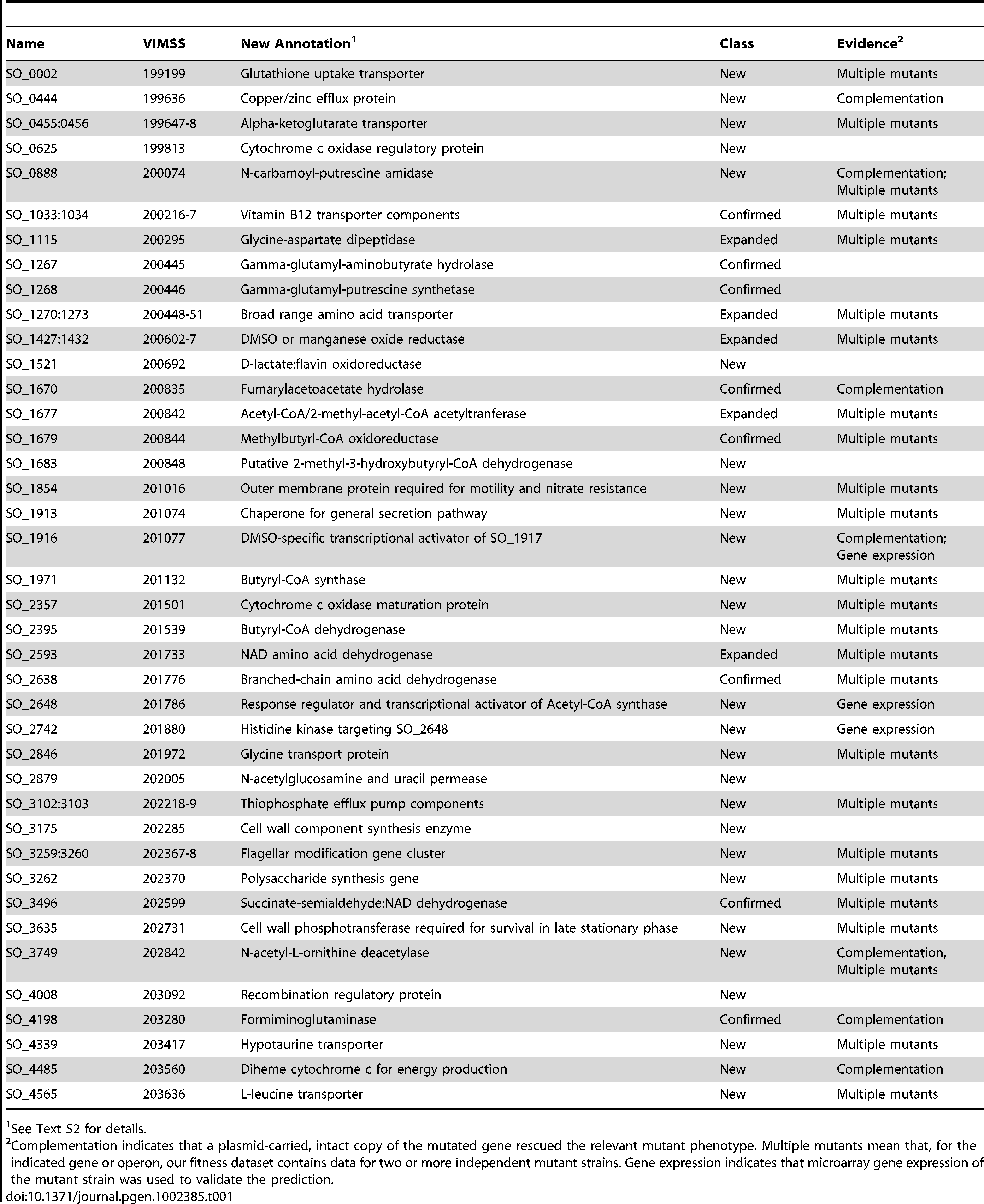 Table 1. New, expanded, and confirmed S. oneidensis MR-1 gene annotations. Citation: Deutschbauer A, Price MN, Wetmore KM, Shao W, Baumohl JK, et al. (2011) Evidence-Based Annotation of Gene Function in Shewanella oneidensis MR-1 Using Genome-Wide Fitness Profiling across 121 Conditions. PLoS Genet 7(11): e1002385.